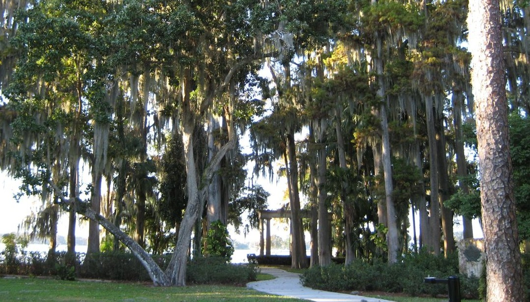 Photo taken at Kraft Azalea Gardens